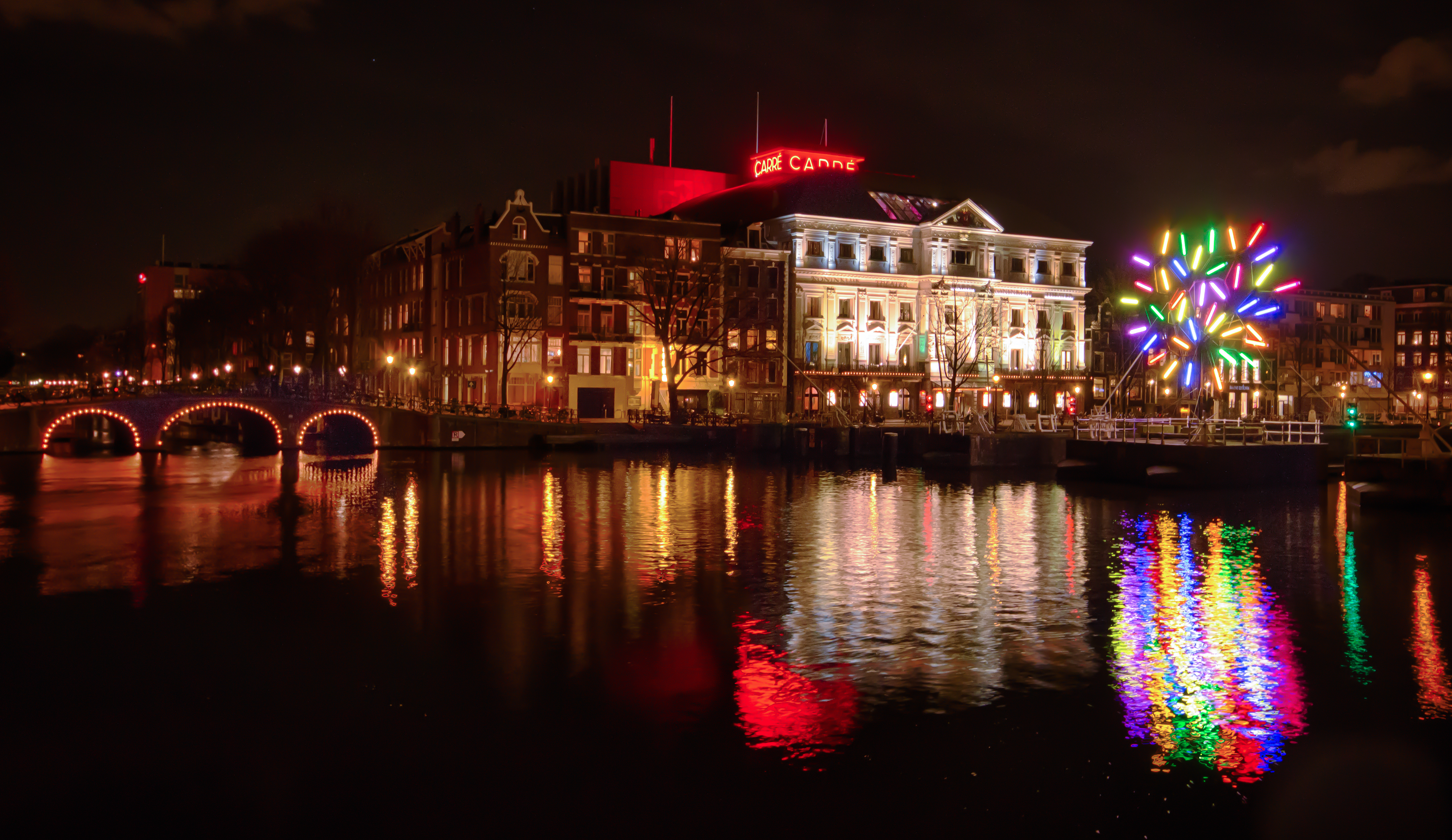 Carré Theatre during Amsterdam Light Festival 13/14 featuring Big Tree by Jacques Rival